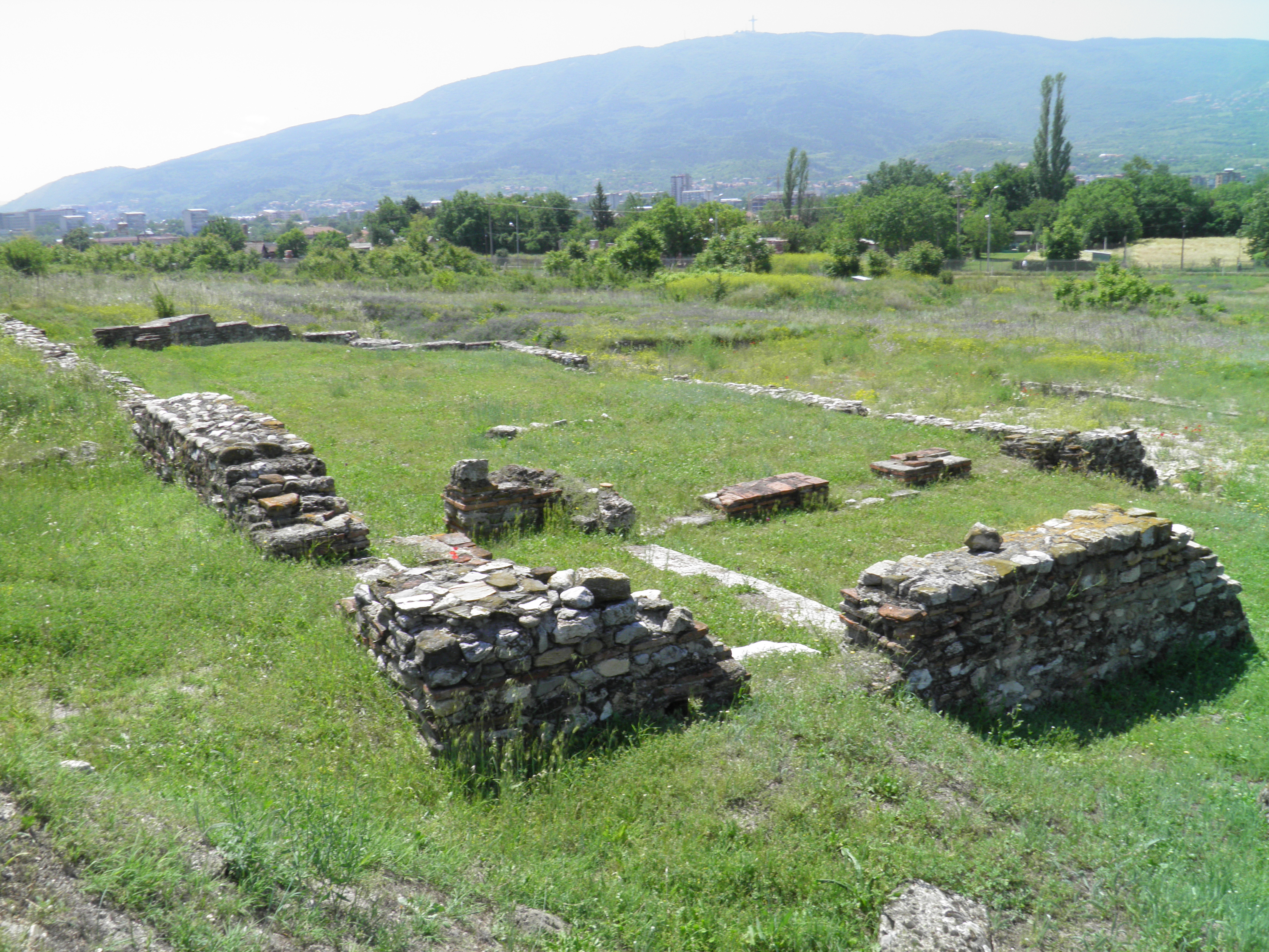 Stobi, Macedonia